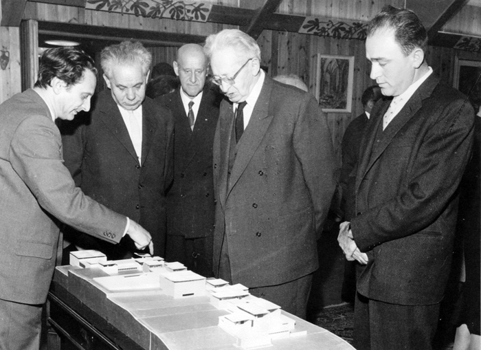 Photograph